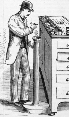 Melbourne tea auction This print from a wood-engraving shows a Melbourne tea auction, including tea being weighed, tea tasting (referred to as "liquoring") and an auctioneer taking bids from crowd of buyers. September 2, 1885. To find out more about this image, visit our catalogue: .au/10381/46596